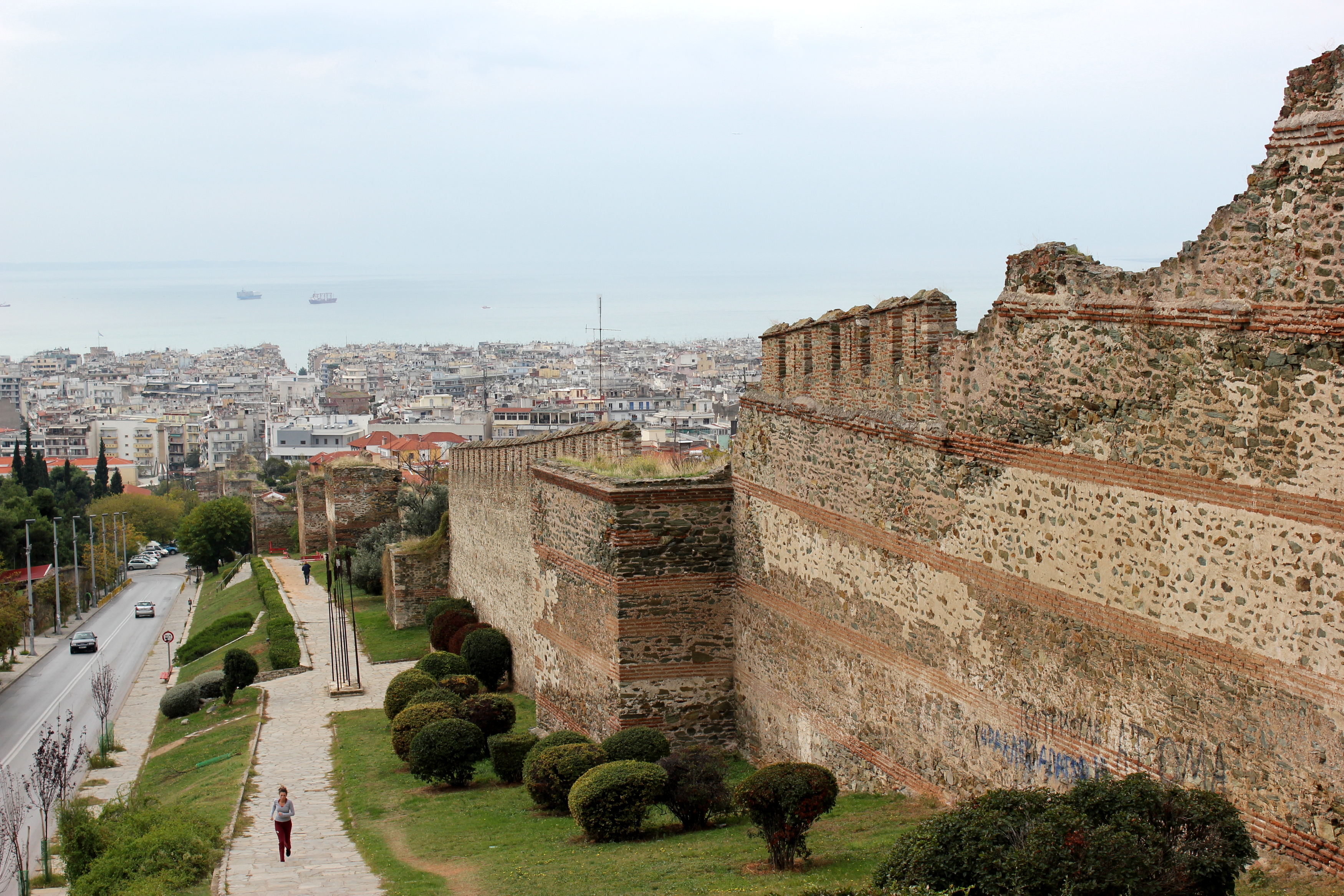 City wall in Thessaoloniki, Greece.